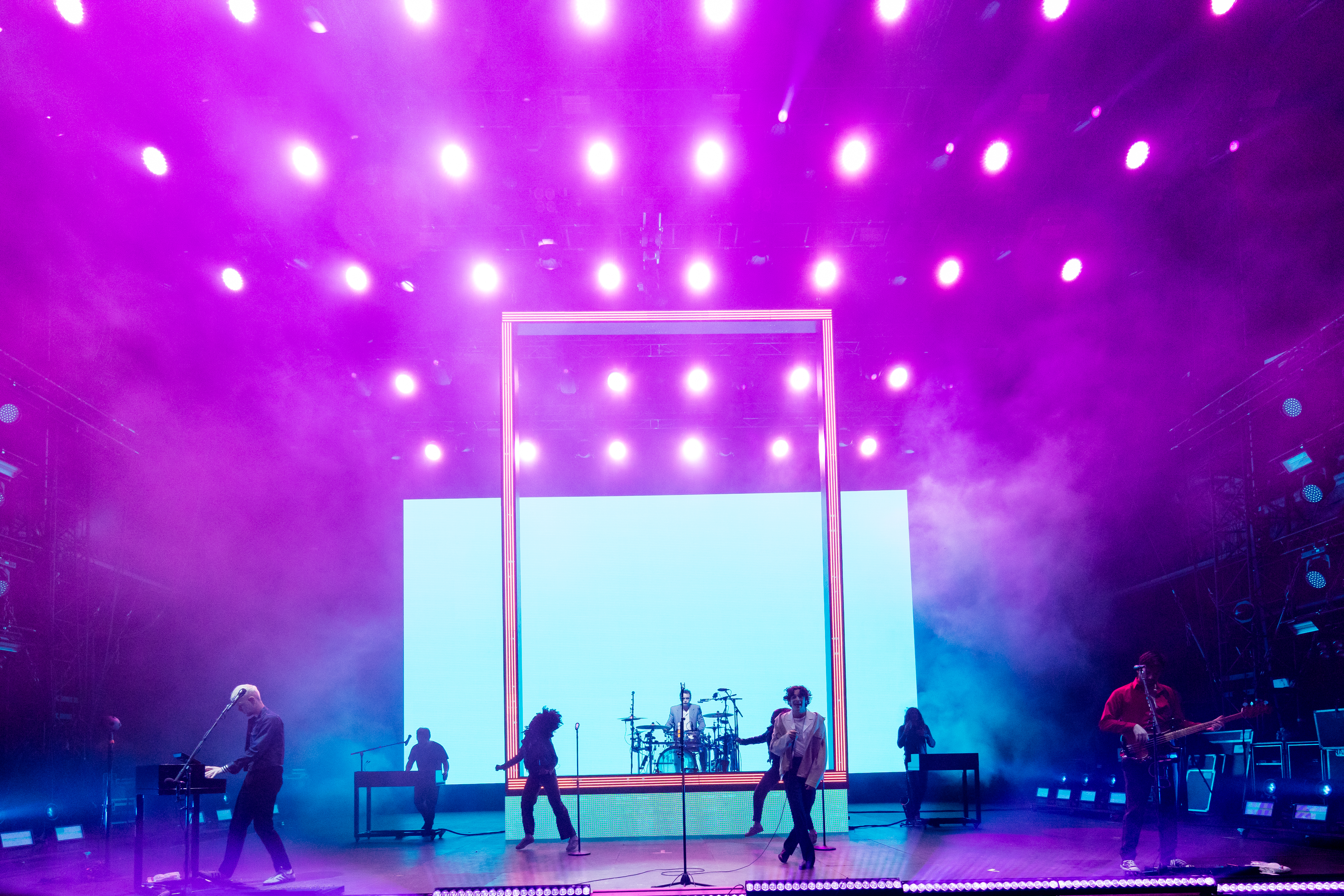 The 1975 during Rock am Ring ( at Nürburgring, Rheinland-Pfalz, Germany on 2019-06-07, Photo: Sven Mandel Promotion by Live Nation (